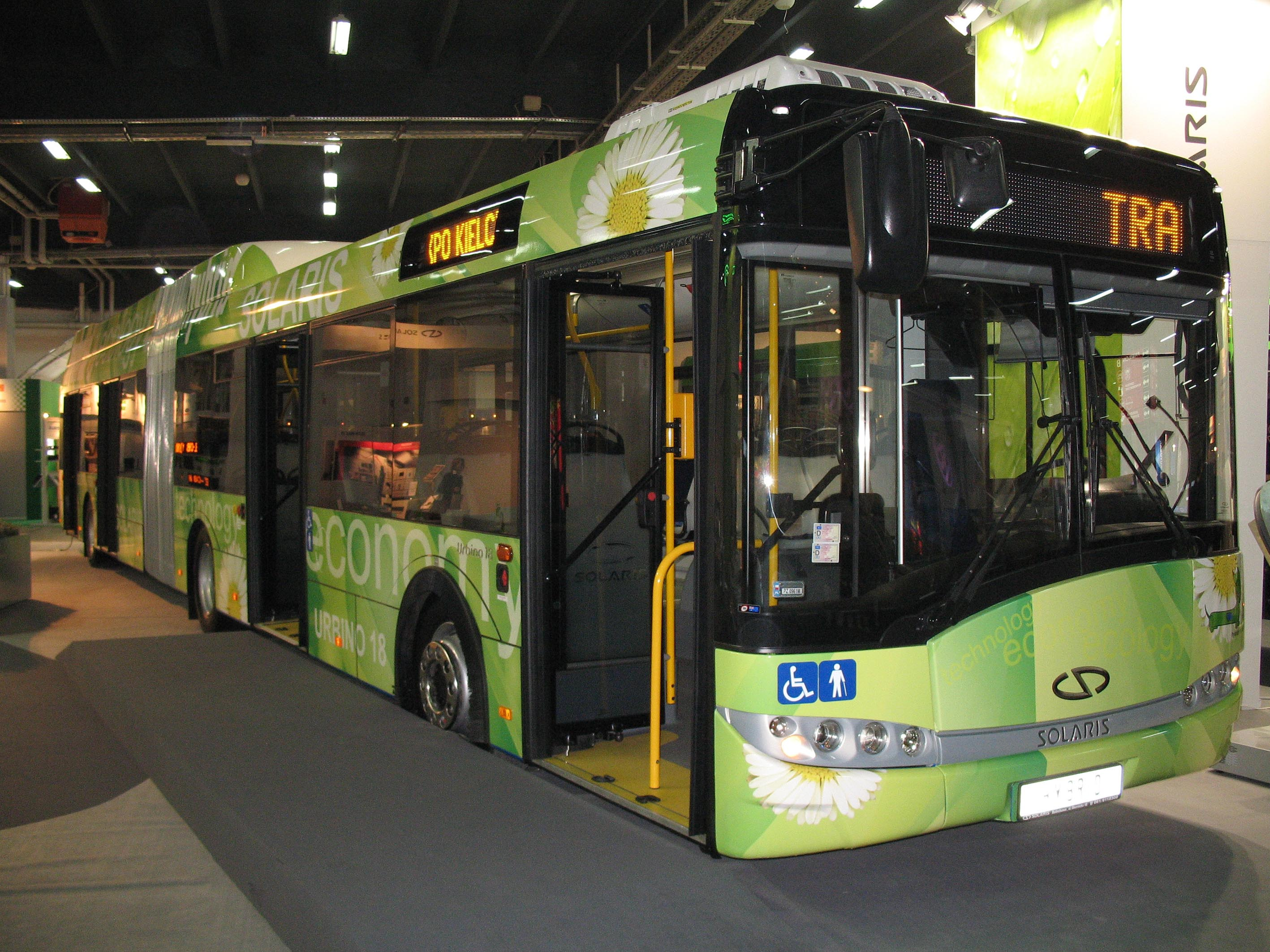 Solaris Urbino 18 Hybrid II (Allison) city bus in Kielce, Poland. Built 2008. Transexpo 2008 exhibition. From 2009 - PKM Sosnowiec operator (#500).